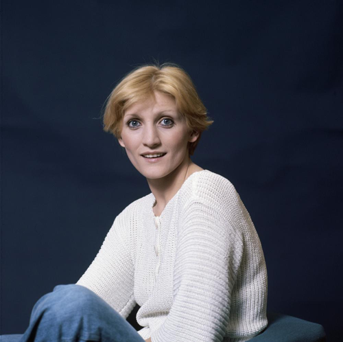 Portrait of Mary Christy at the day of the Eurovision Song Contest 1976